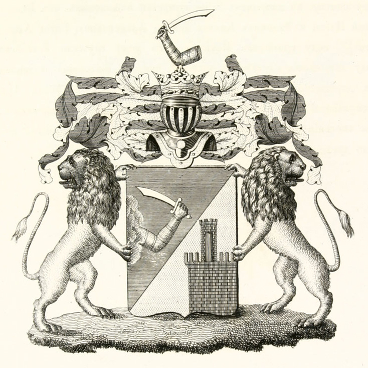 Coat of arms of the House of Bulychov